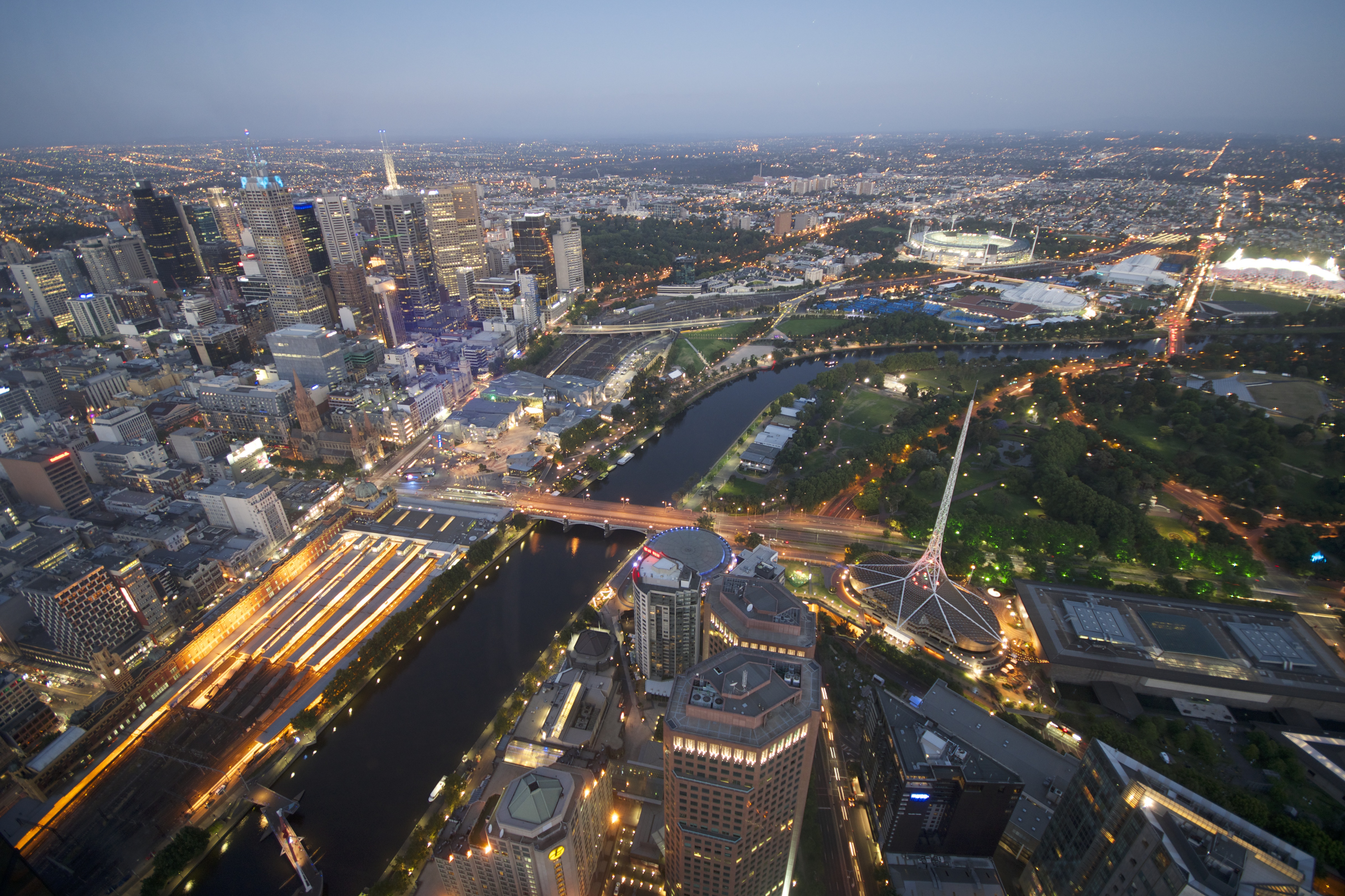 Melbourne is the capital and most populous city in the state of Victoria, and the second most populous city in Australia. The name "Melbourne" refers to an urban agglomeration area that comprises the greater metropolis – as well as being a common name for its metropolitan hub, the Melbourne City Centre. It is a leading financial centre in Australia as well as the Asia-Pacific region,and has been ranked the World's most livable city since 2011 (and among the top three since 2002) – according the Economist Intelligence Unit. Melbourne is rated highly in the areas of education, entertainment, healthcare, research and development, tourism and sports